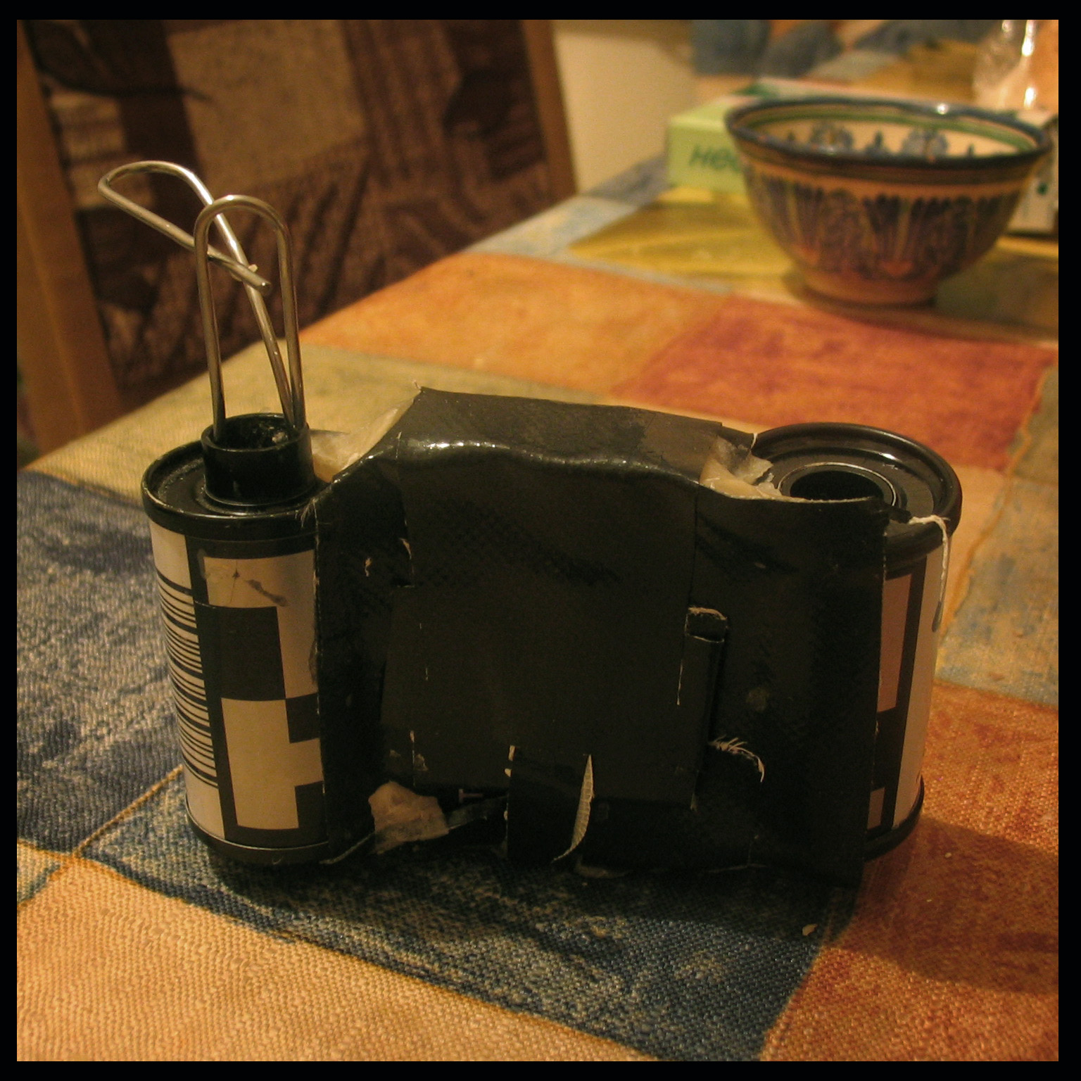 Tomorrow, Sunday 29 April is International Pinhole day. Don't miss this opportunity- make yourself a pinhole camera and have some fun! (Oct 2009): The one I am currently using is shallower than this (wide-angle0 and is wrapped in newspaper to avoid light leaks. alspix's instructions here